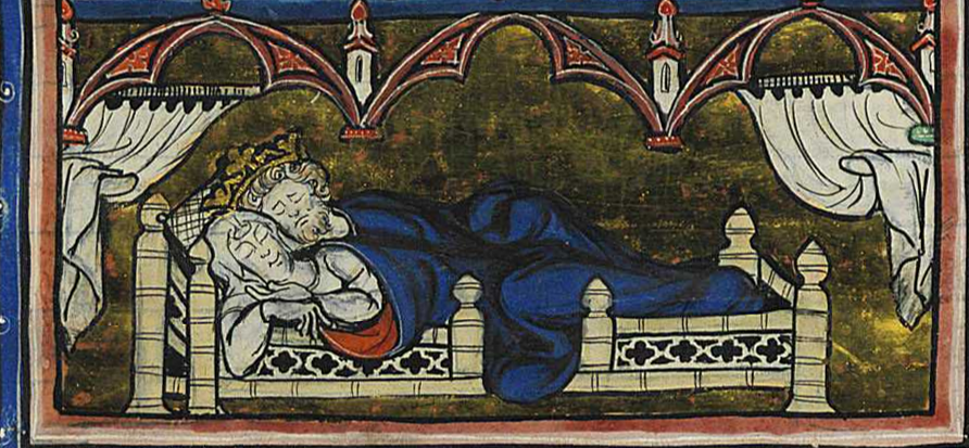 XIII century Old French romance Story of Merlin, manuscript copied in Saint-Omer, around 1280-1290. BnF, Manuscript, French 95 fol. 149v